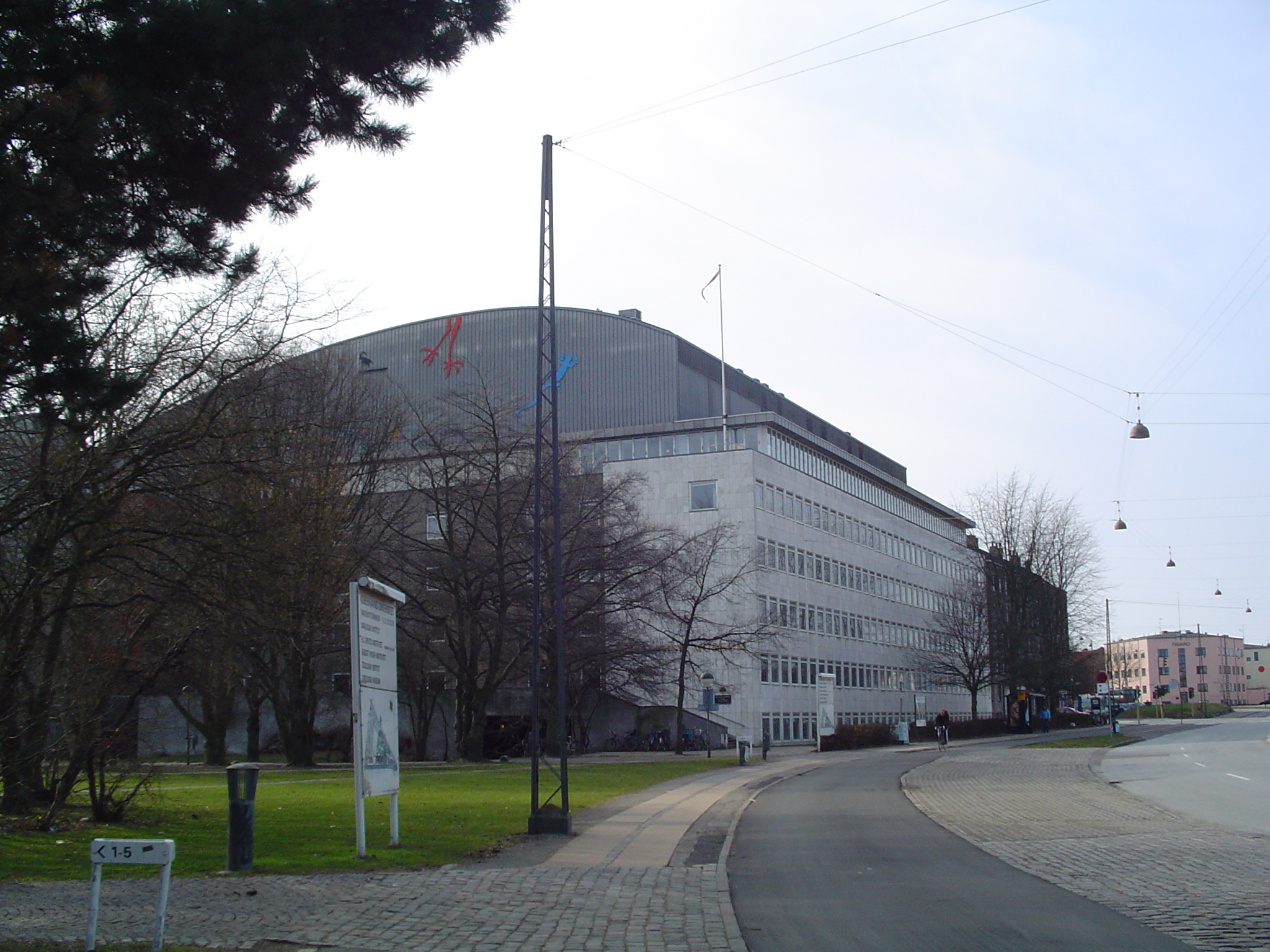 University of Copenhagen Zoological Museum. Taken by me on 26/3-2005.